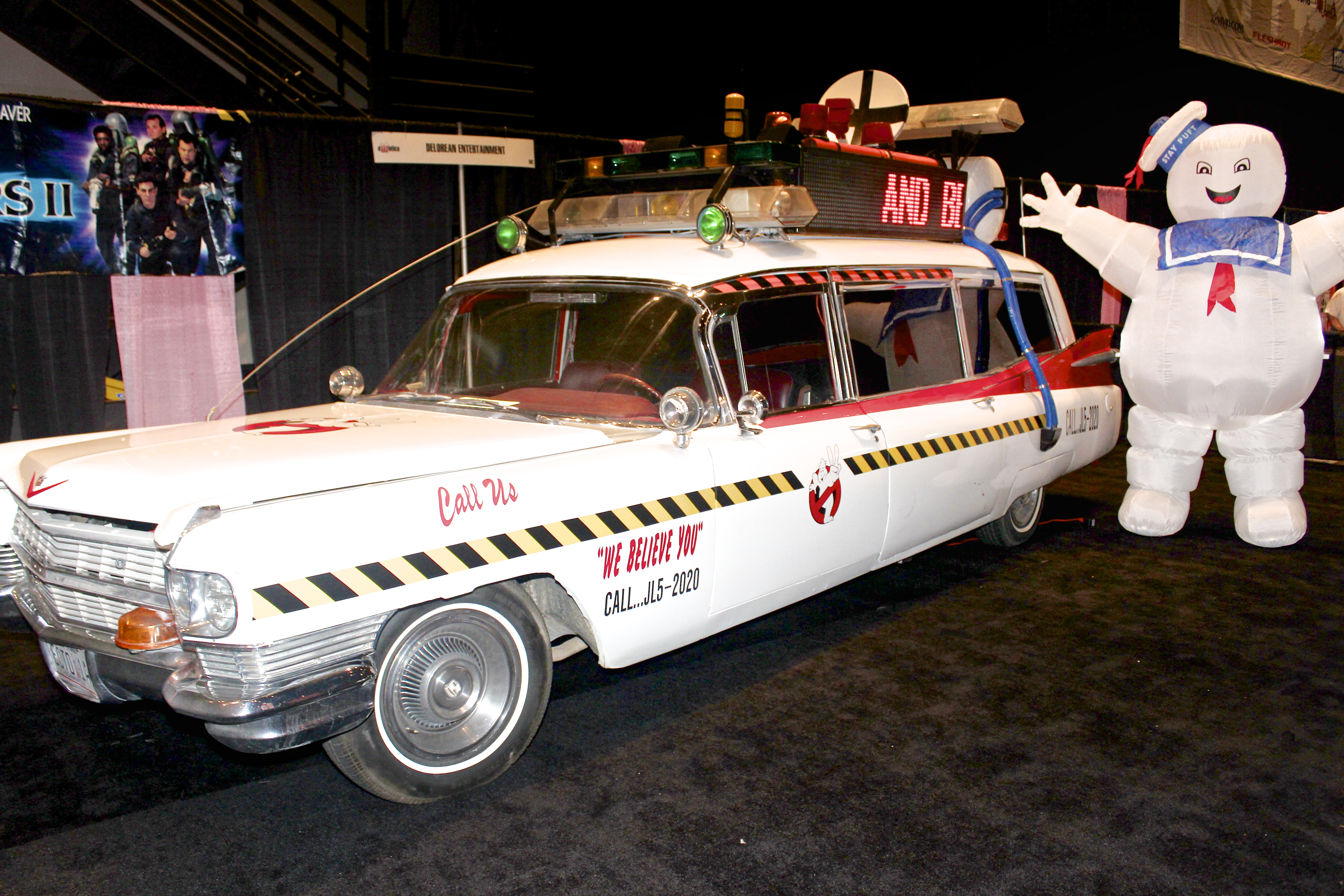 Eckto-1 at Exxxotica Atlantic City, New Jersey-2013.